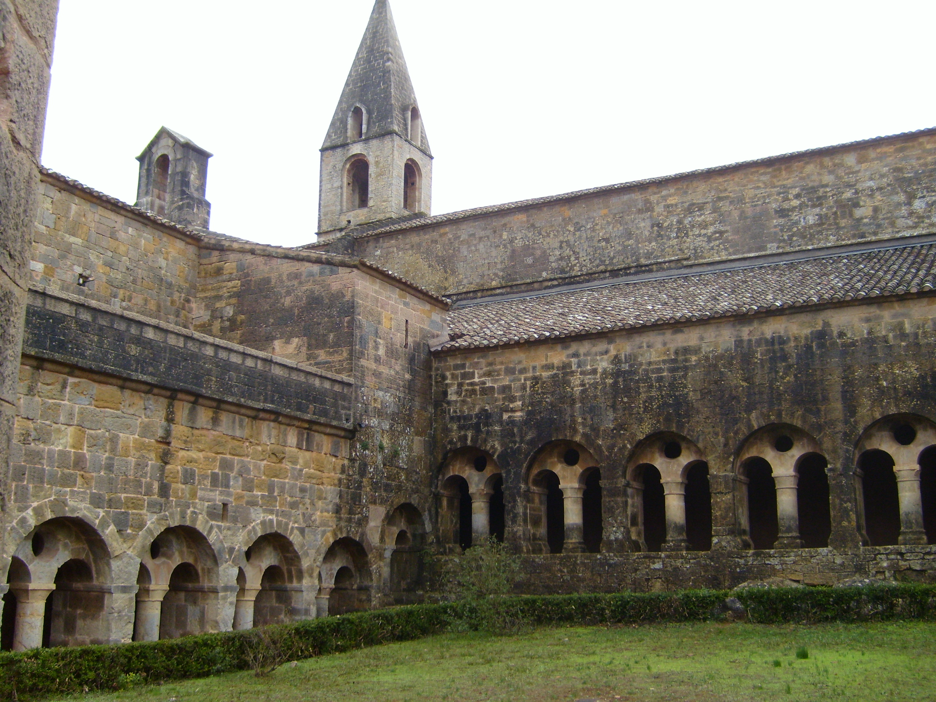 Cloister and Tower of Le Thoronet Abbey, Provence, France